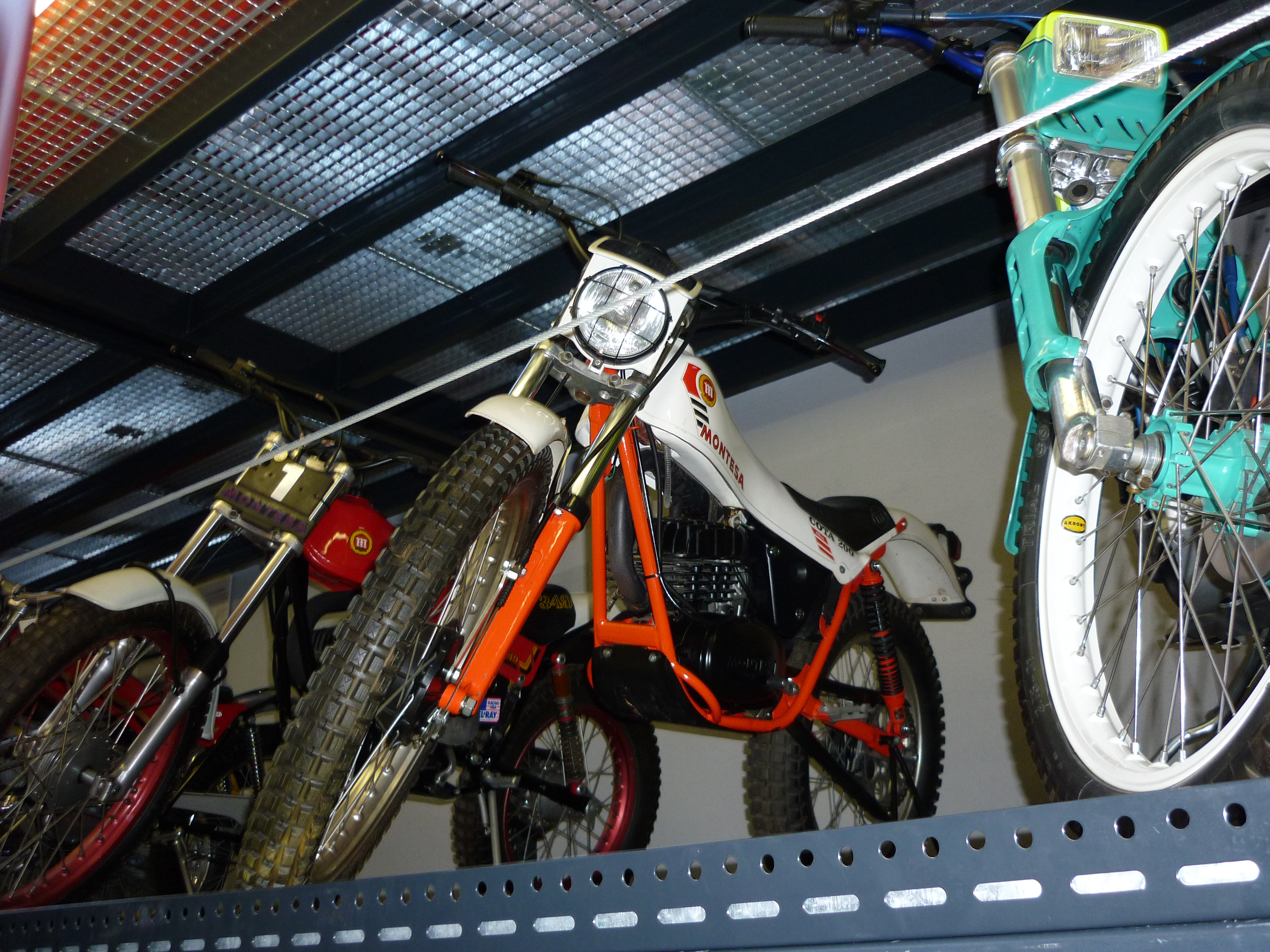 Montesa Cota 200 in white (1989)